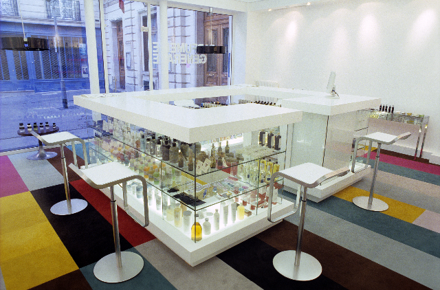 Parfumerie Général